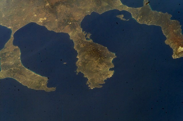 Chalcidice. Peninsulas of Pallene, Sithonia and Mount Athos. Aerial photograph (NASA)